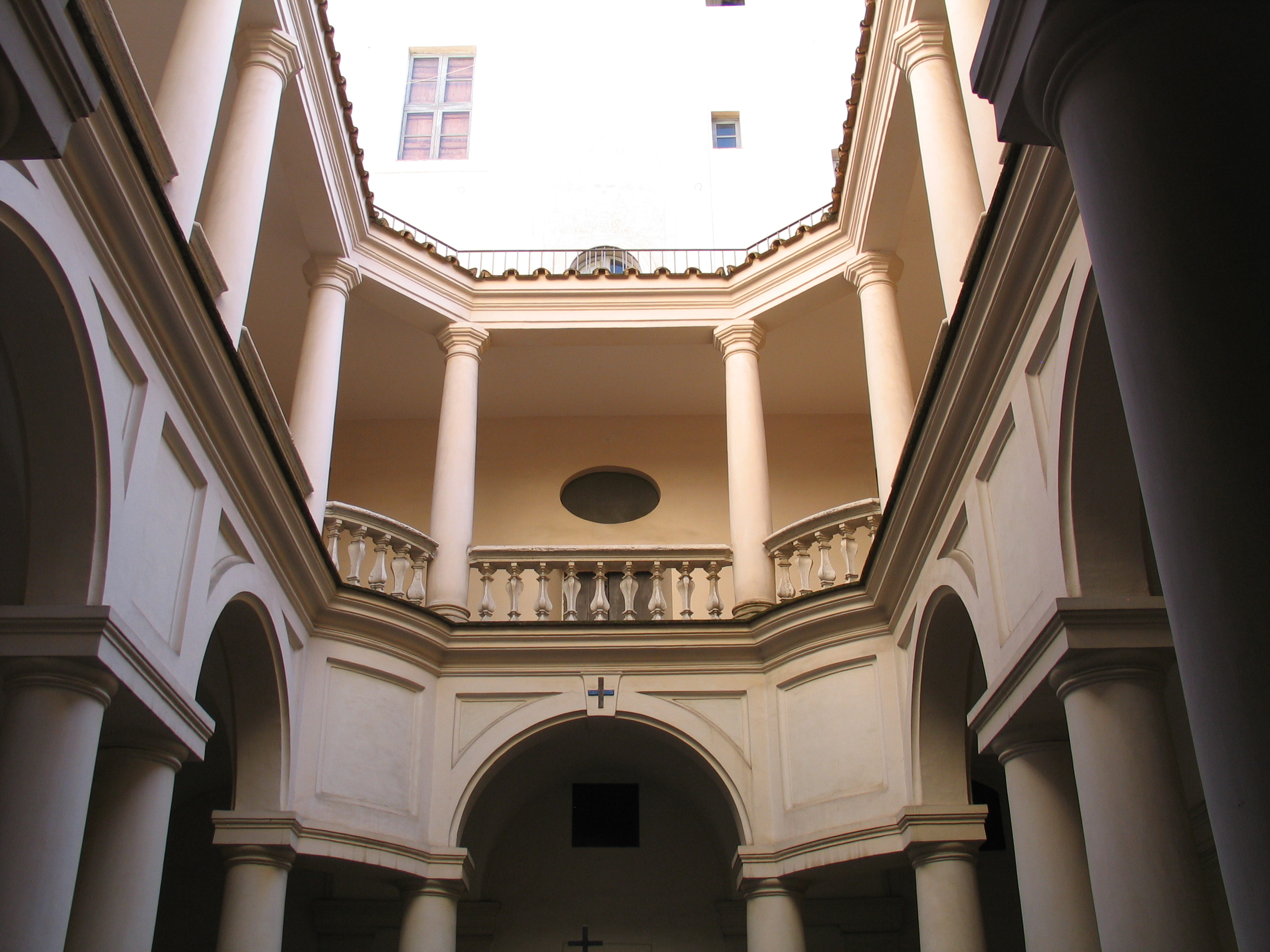 First floor of cloister San Carlino with a balustrade typical of Borromini